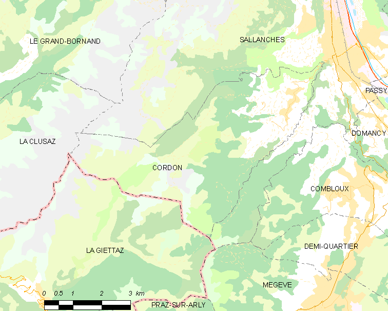 Map of French municipality Cordon